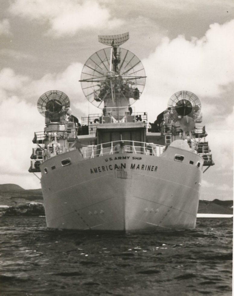 View of the USAS American Mariner at Clarence Bay, Ascension Island, in 1962.